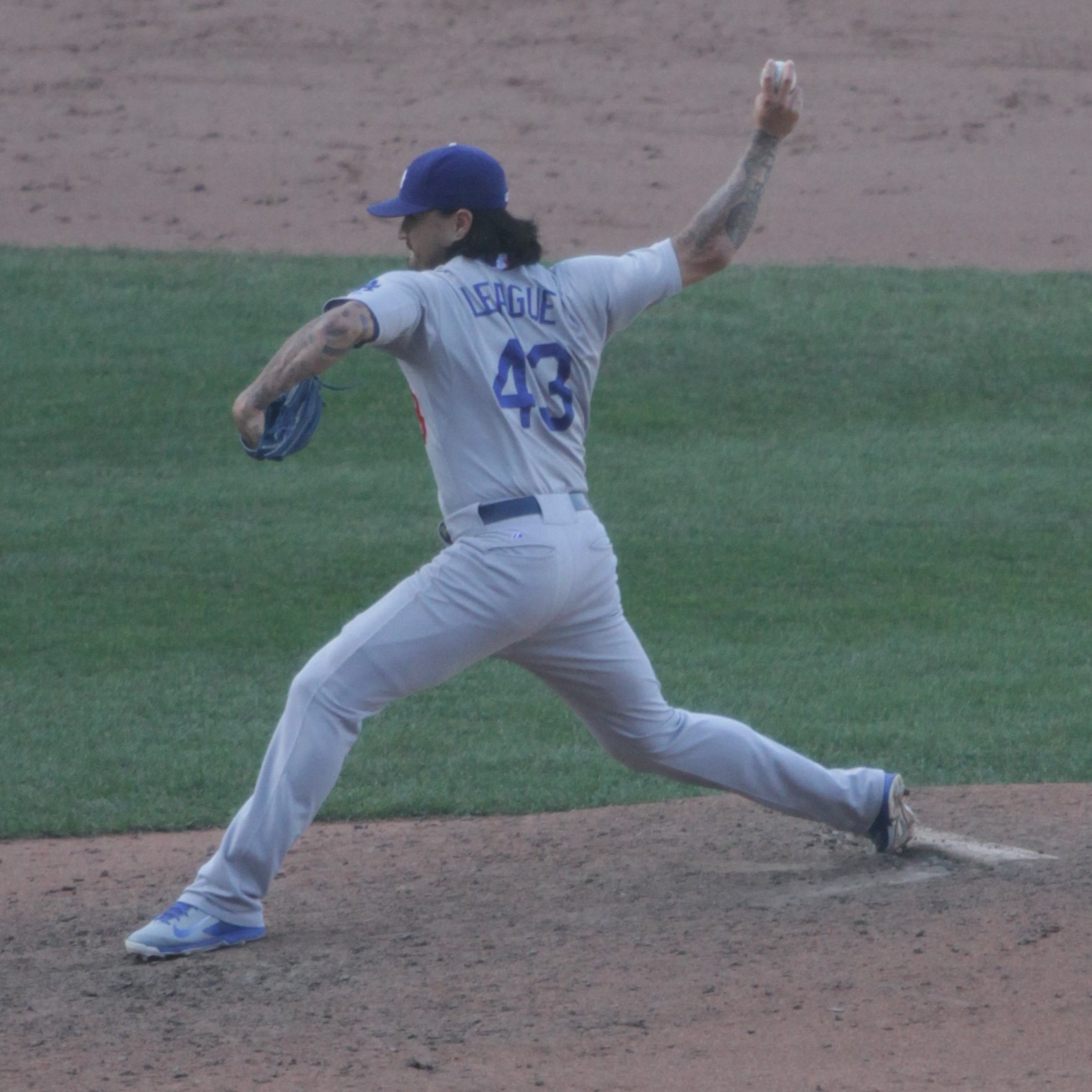 Brandon League for the 2014 Los Angeles Dodgers against the 2014 Chicago Cubs at Wrigley Field.